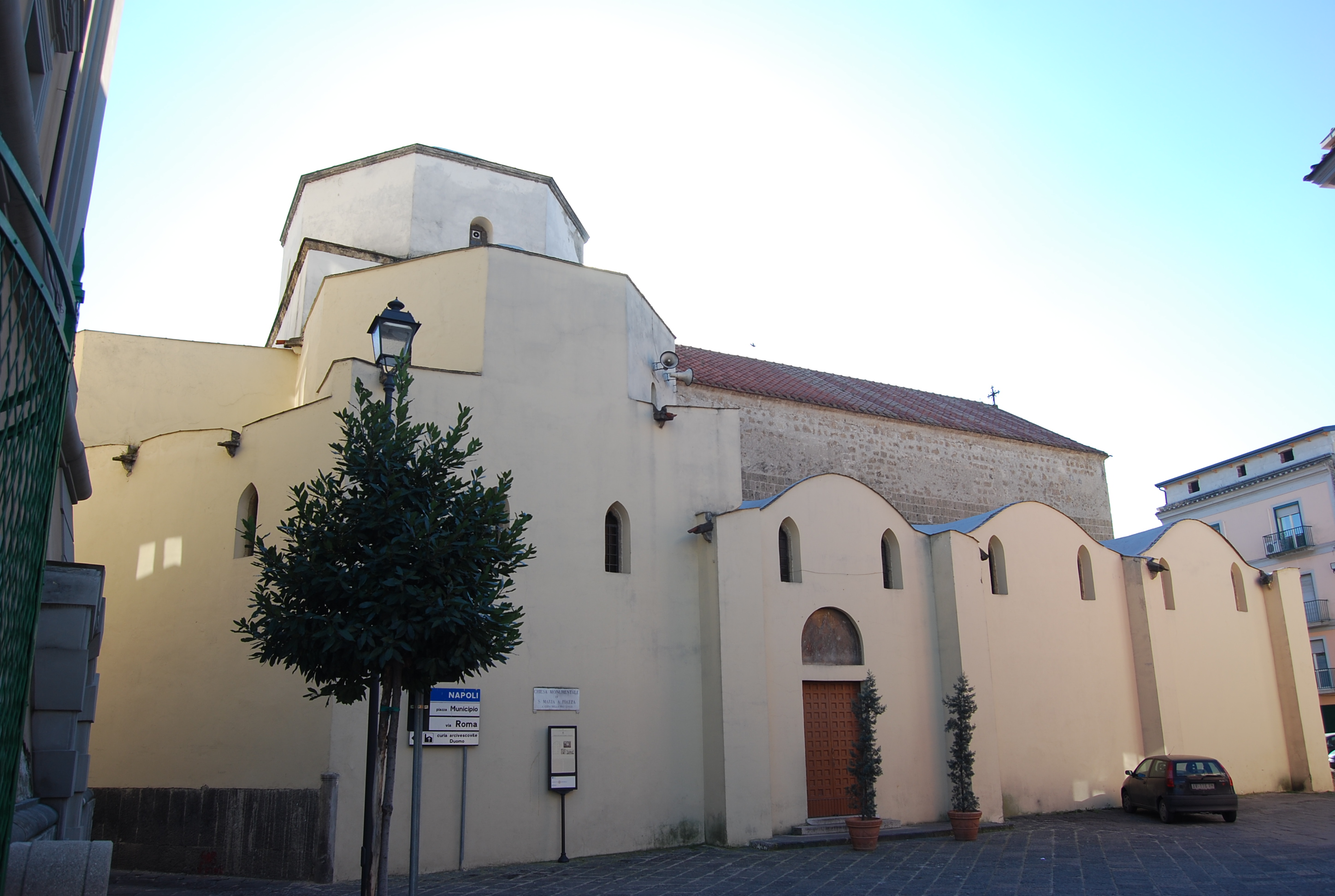 Northern side of Santa Maria a Piazza Church in Aversa, Campania, Italy